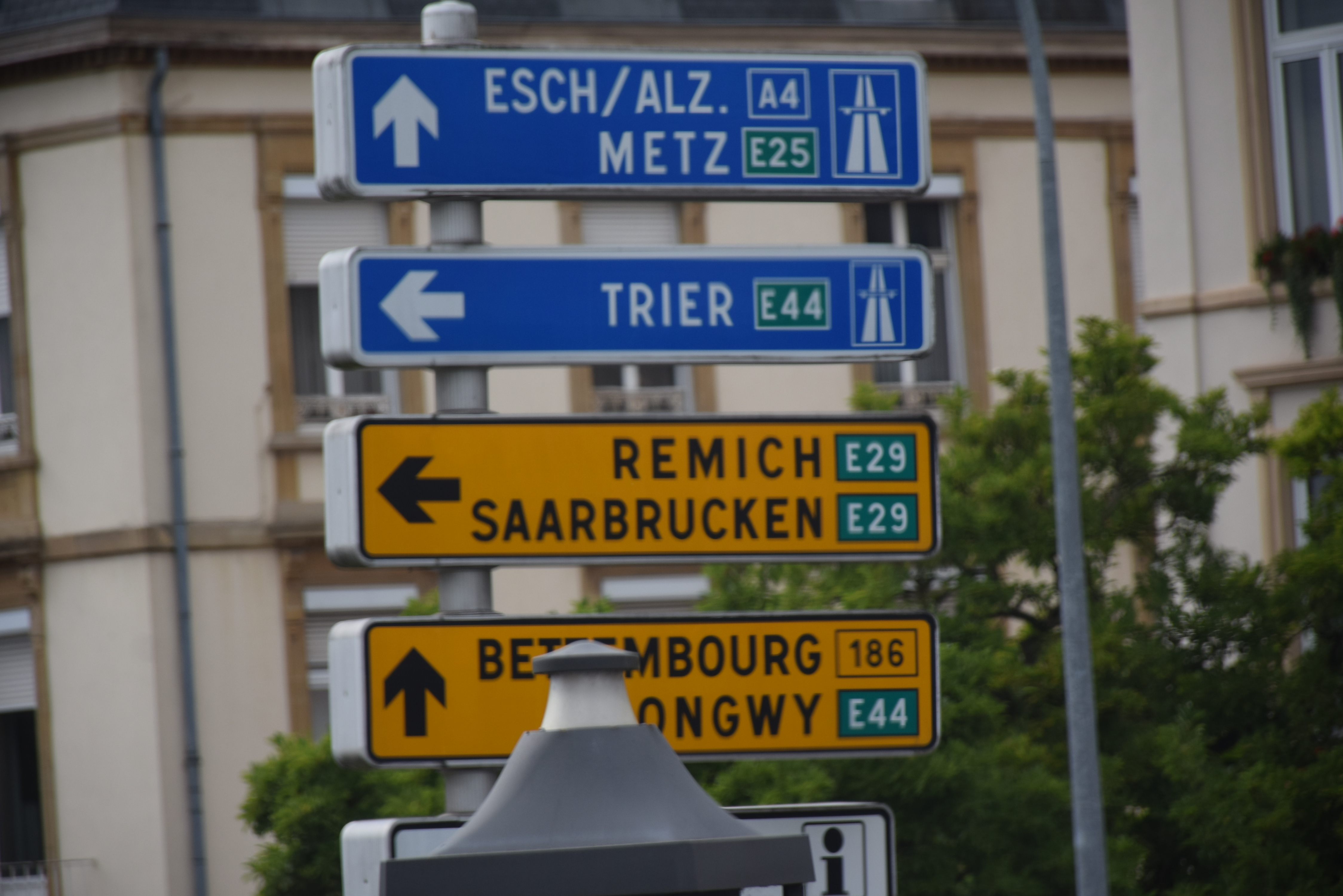 Road signs in Luxembourg City, near Gëlle Fra, indicating directions towards various 'E'-roads